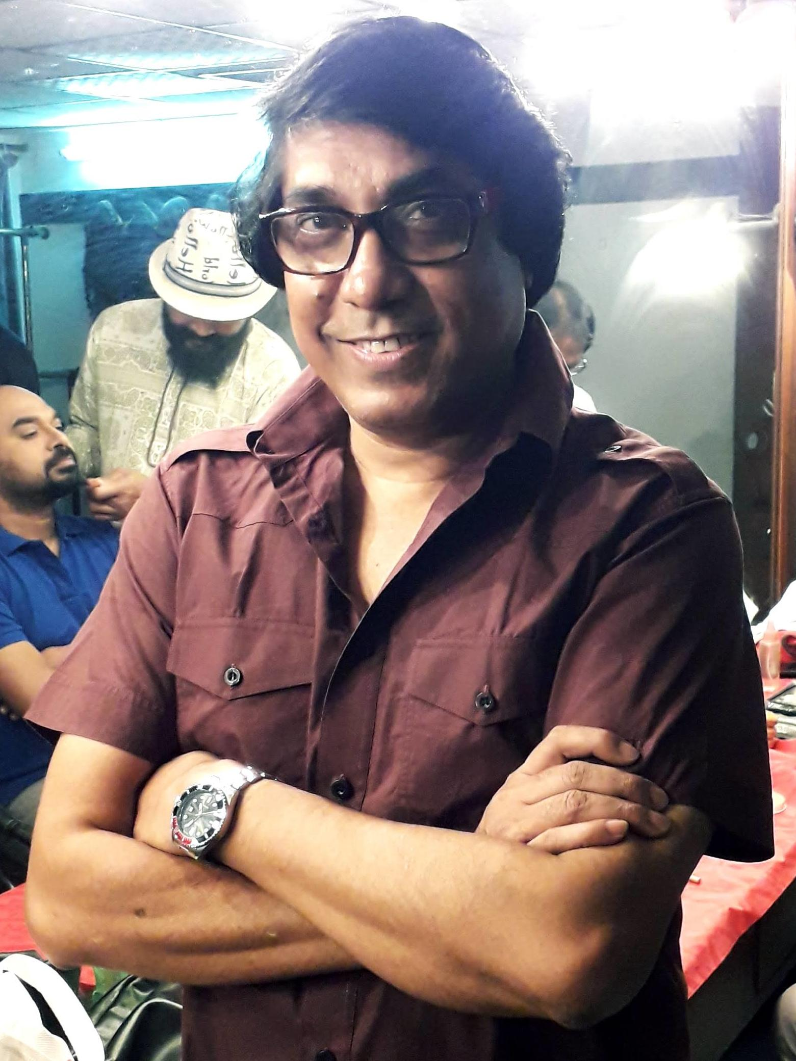 It is the profile picture